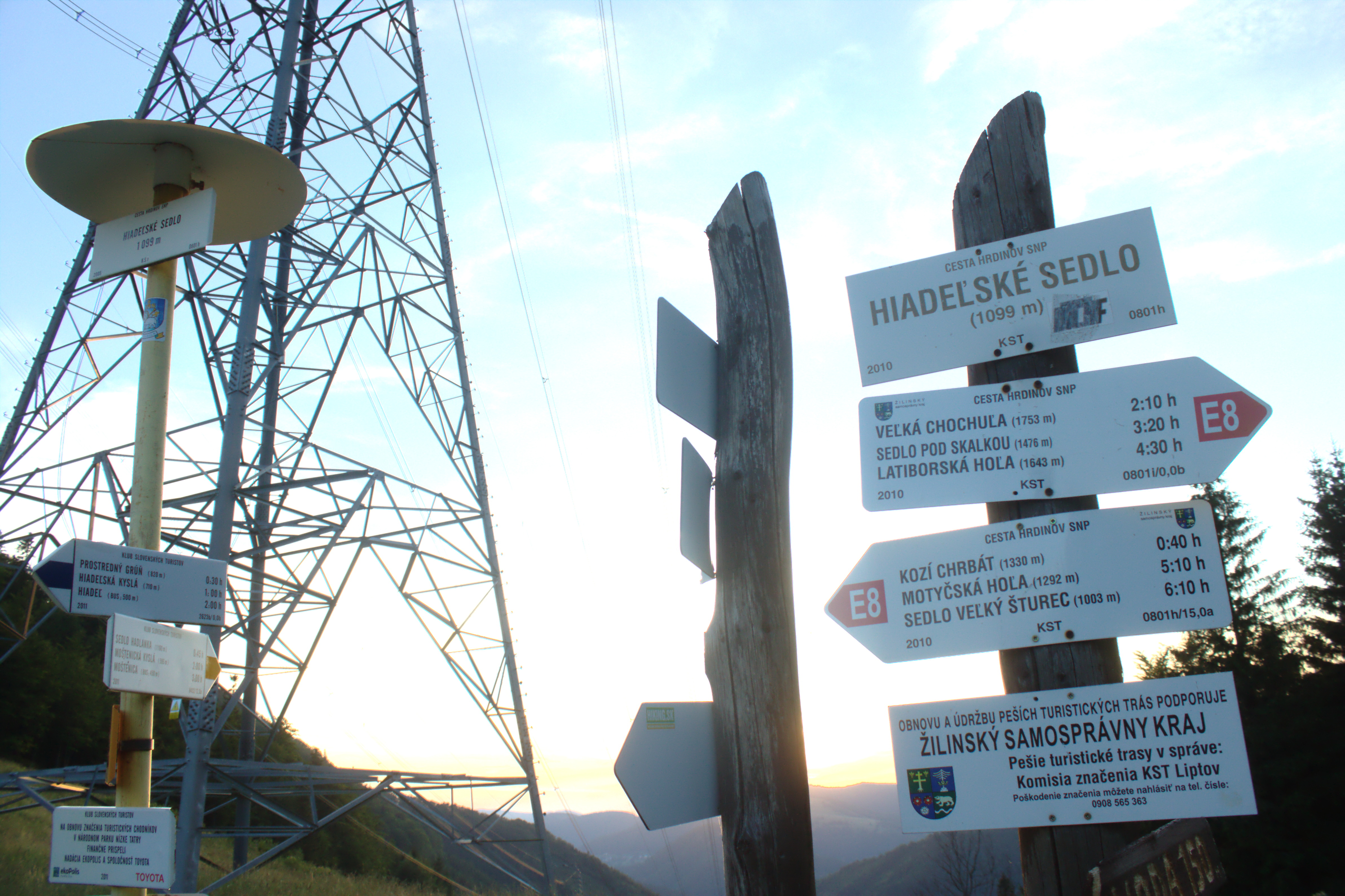 A tourist fingerpost at Hiadeľské sedlo, SK